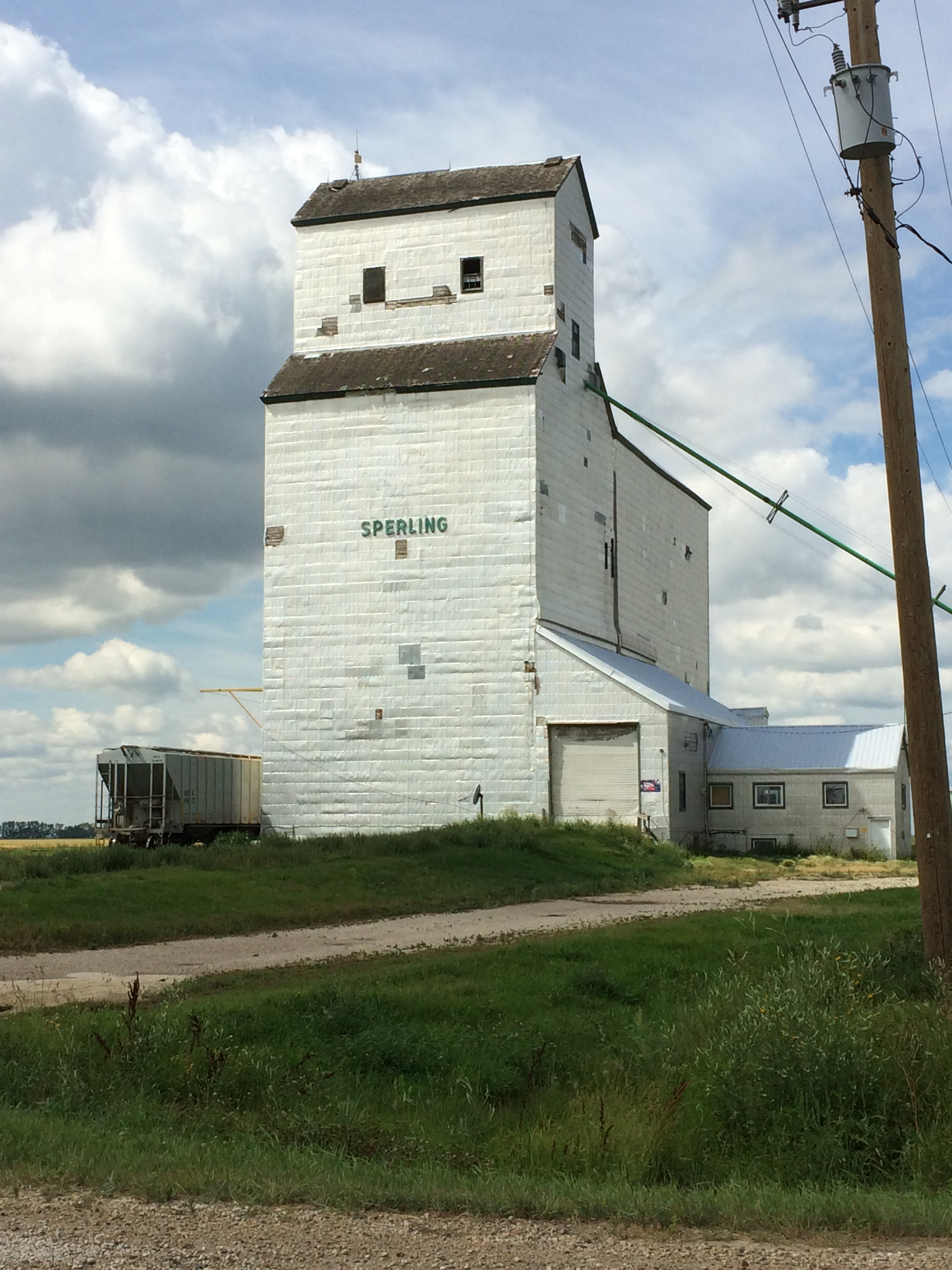 Former Manitoba Pool Grain Elevator at Sperling, Manitoba